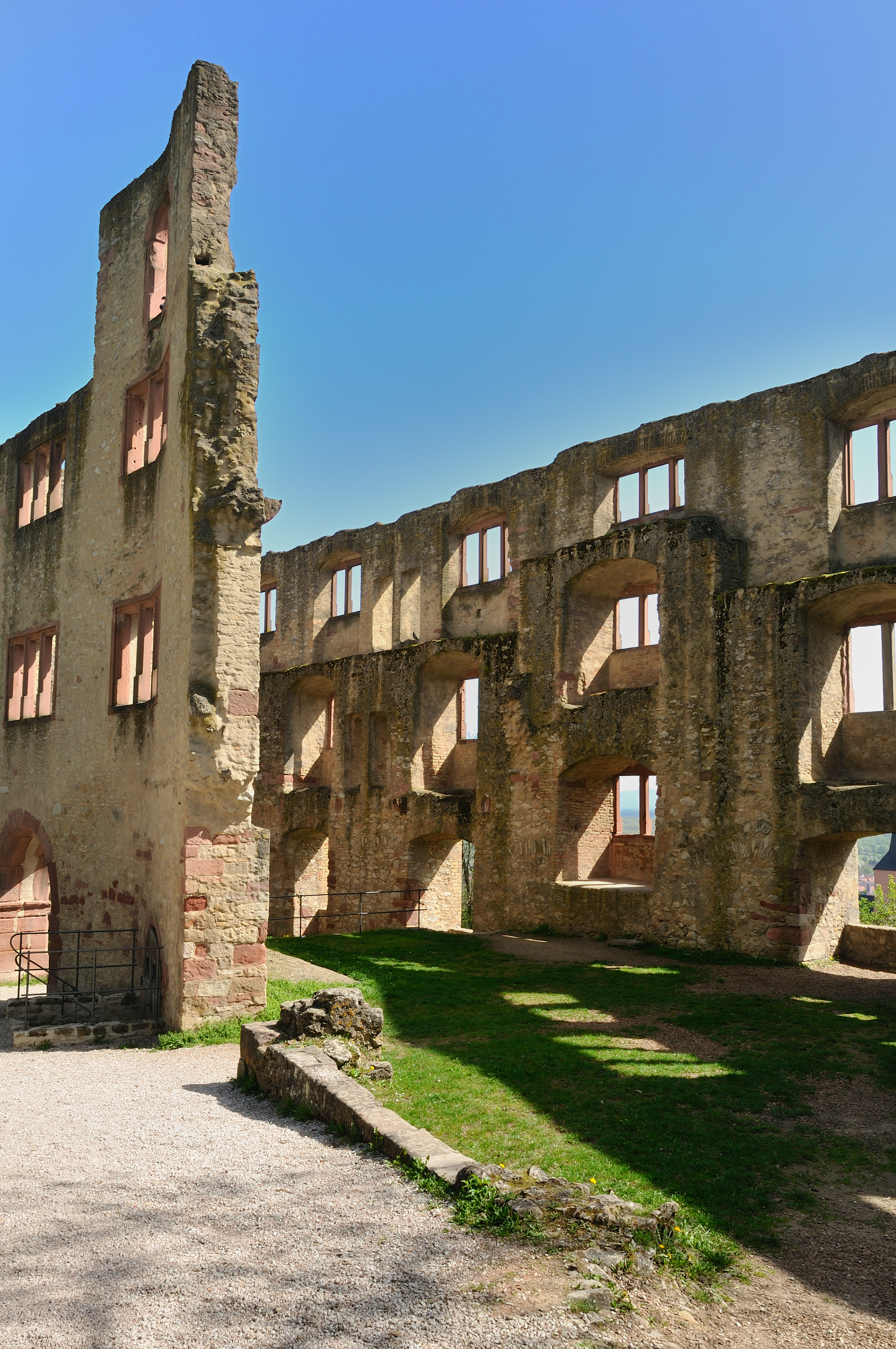 Inside Castle Landskron